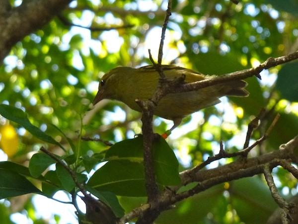 Juvenile fody feeding on nectar of Hilsenbergia petiolaris.